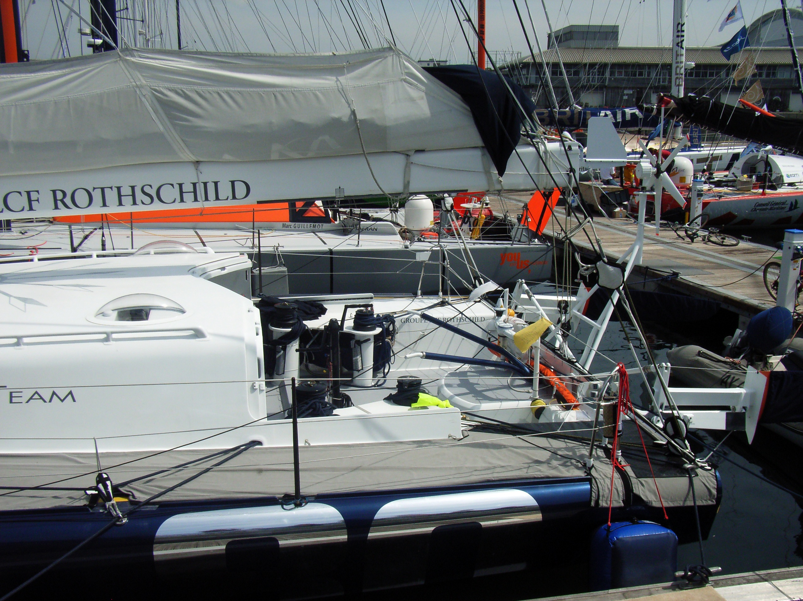 Gitana 80 in Plymouth